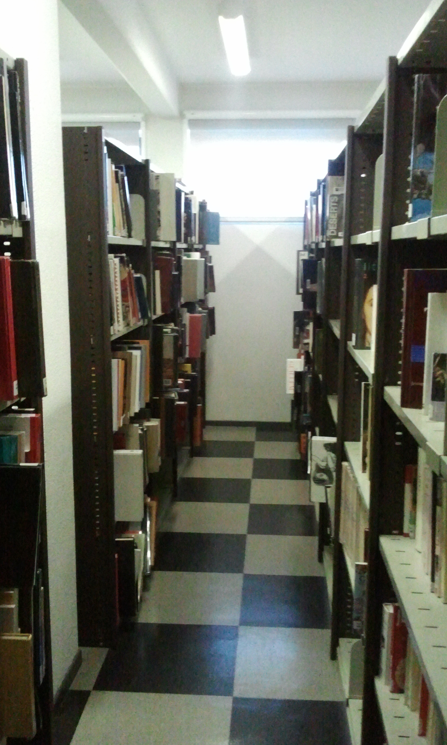 Shelves of the department library in Thuir